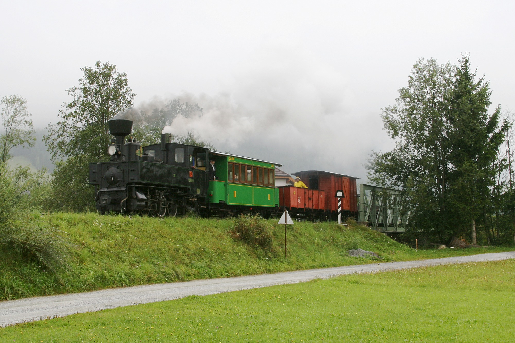 Steiermärkische Landesbahnen (StLB) No. 6 with a freight special on the Taurachbahn heritage railway